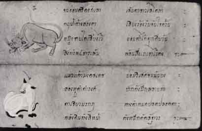 Drawing of Siamese cats from the "Tamra Maew" (Cat Poems), 18th century: "Dork Lao" and "Maew Kaew".